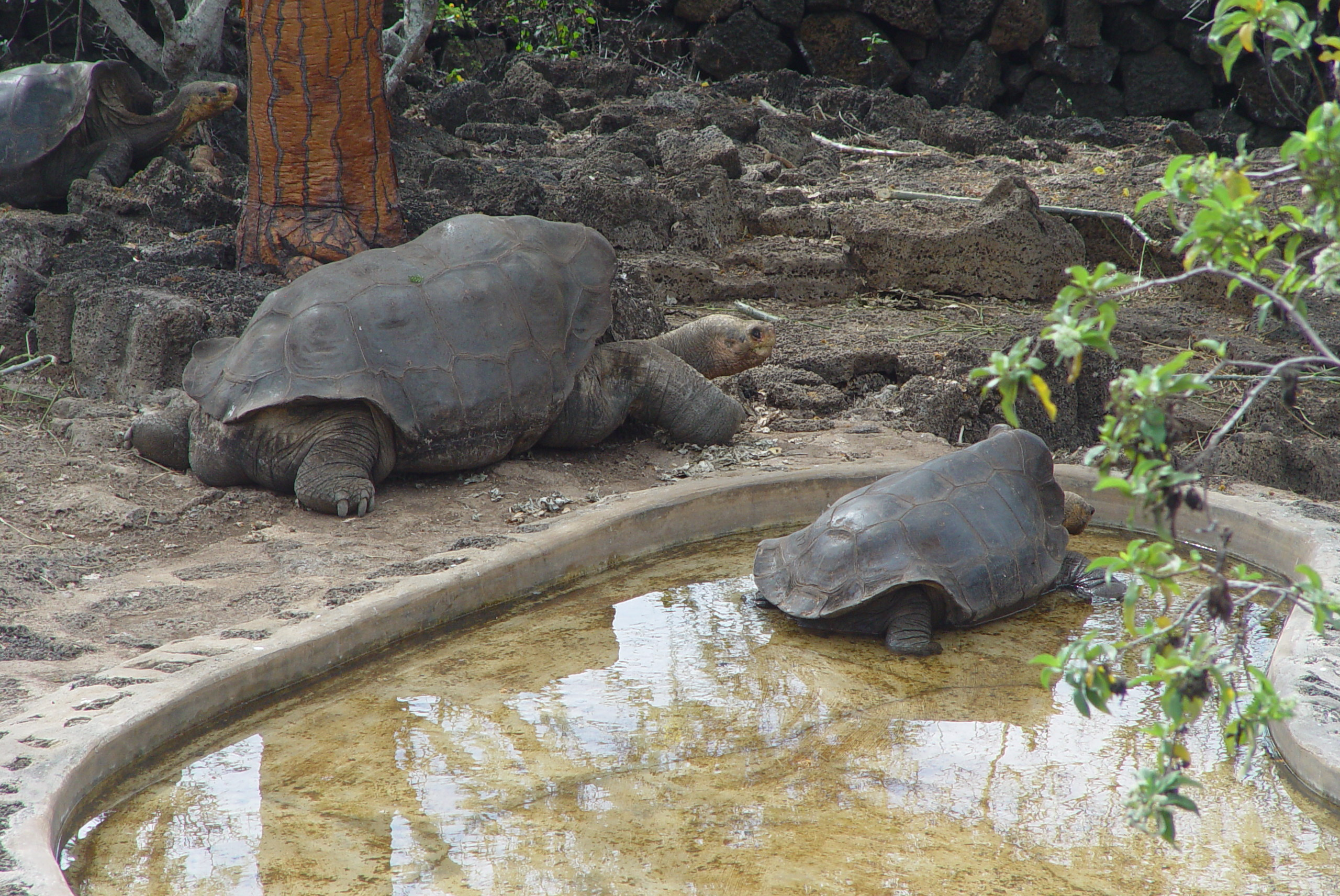 Abingdon Island tortoise (Chelonoidis nigra abingdoni) - Lonesome George, Santa Cruz Island, Galápagos, Ecuador